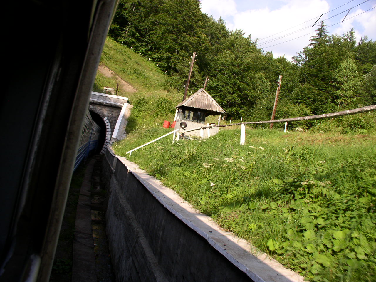 View from Kamianka-Buzka-Skole-Volovets railroad, Ukraine. South portal of the old Beskidy tunnel northeast of Skotarske (Скотарське), Volovets Raion, Zakarpattia Oblast.